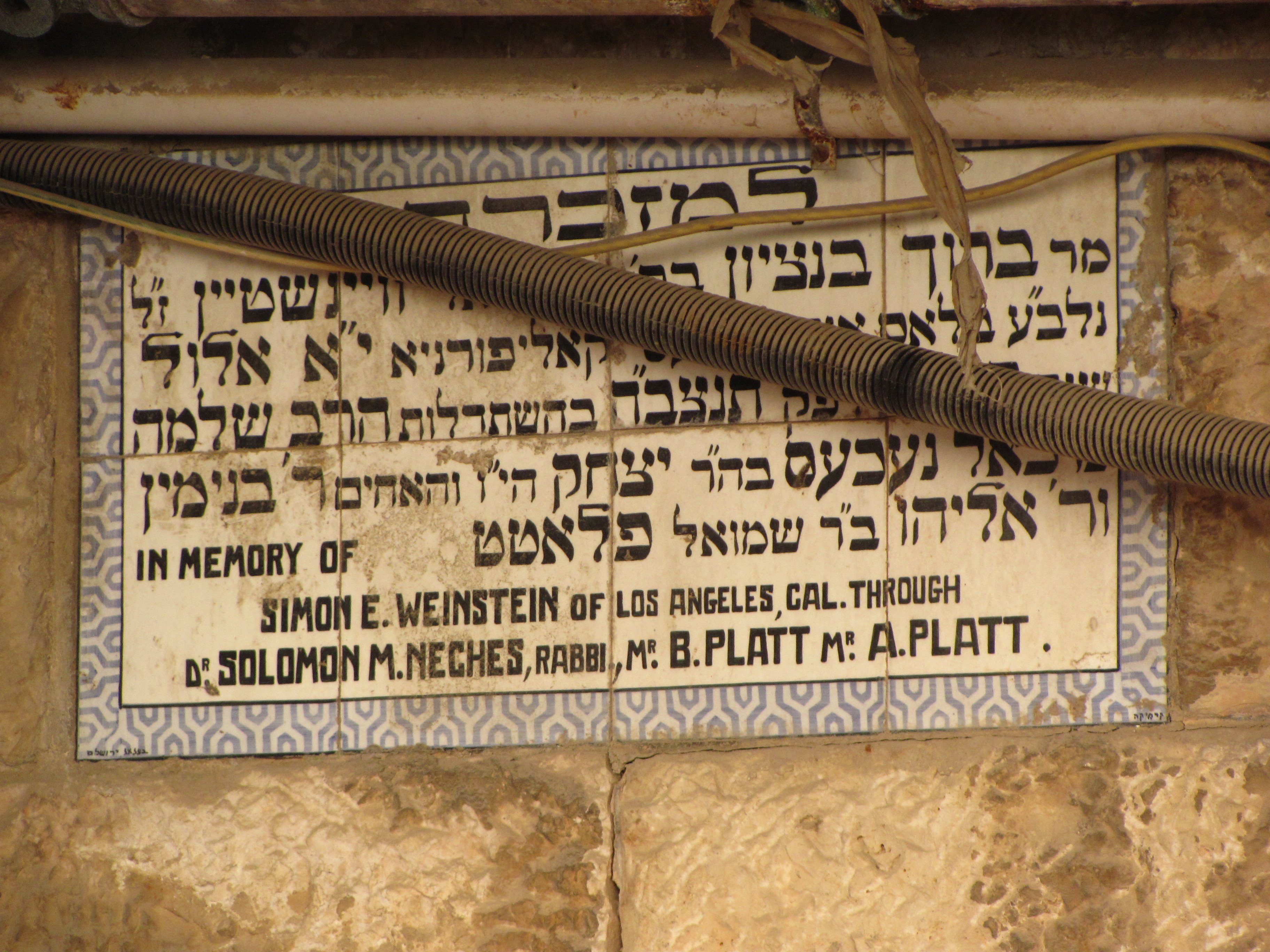 Memorial plaque in Knesset Gimmel, Nachlaot, Jerusalem, for a donor from Los Angeles.